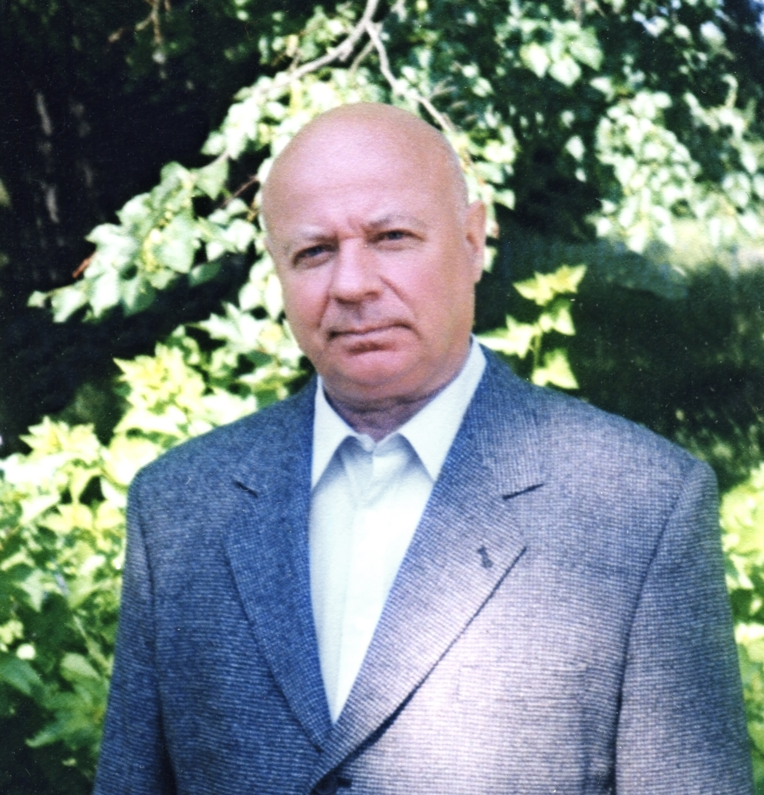 Anatolii Alexeevich Karatsuba